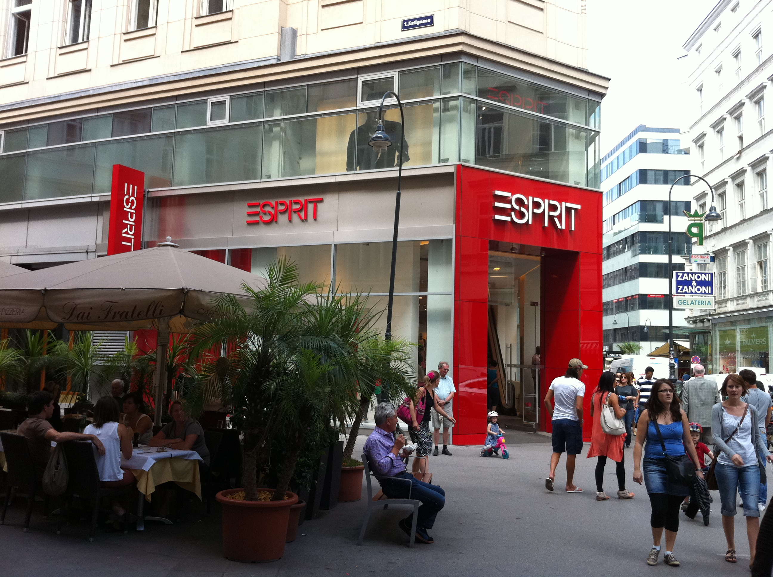 Esprit retail shop in Stephansplatz, Vienna, 26 june 2012.